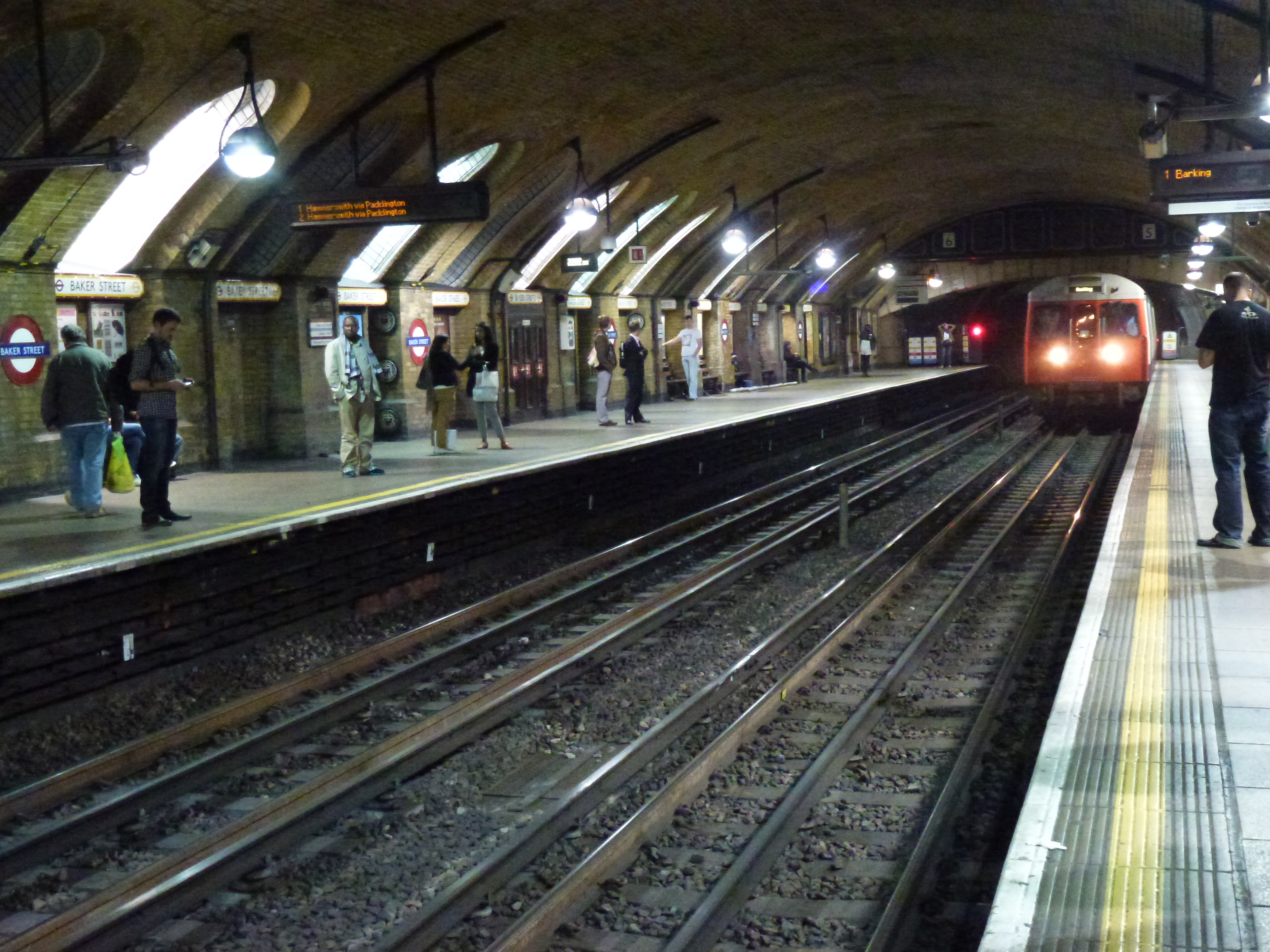 A Hammersmith and City Line train for Barking arrives at one of Baker Street's two oldest platforms.